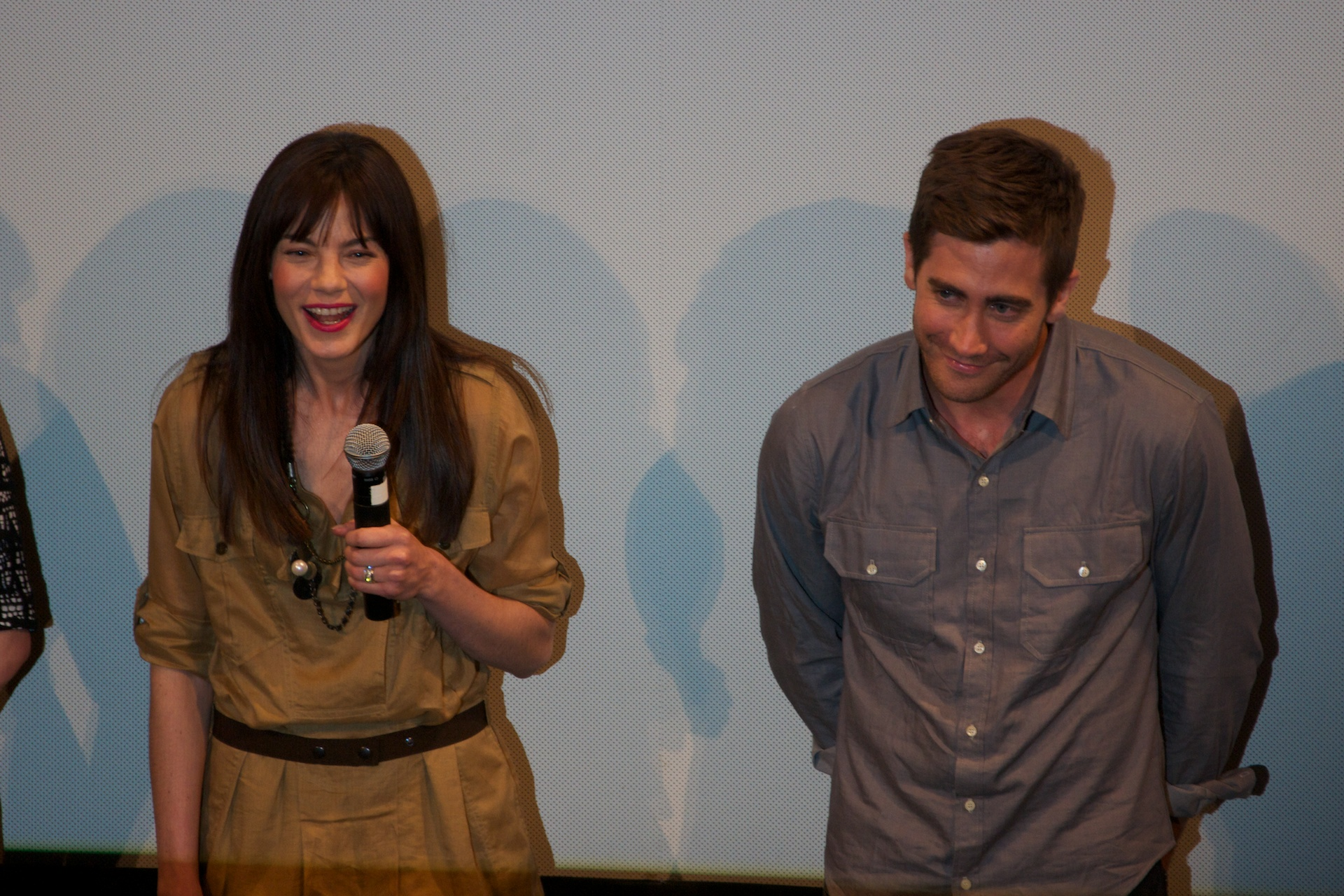 Michelle Monaghan (left) and Jake Gyllenhaal (right) at the SXSW 2011 Source Code premiere on March 12, 2011.